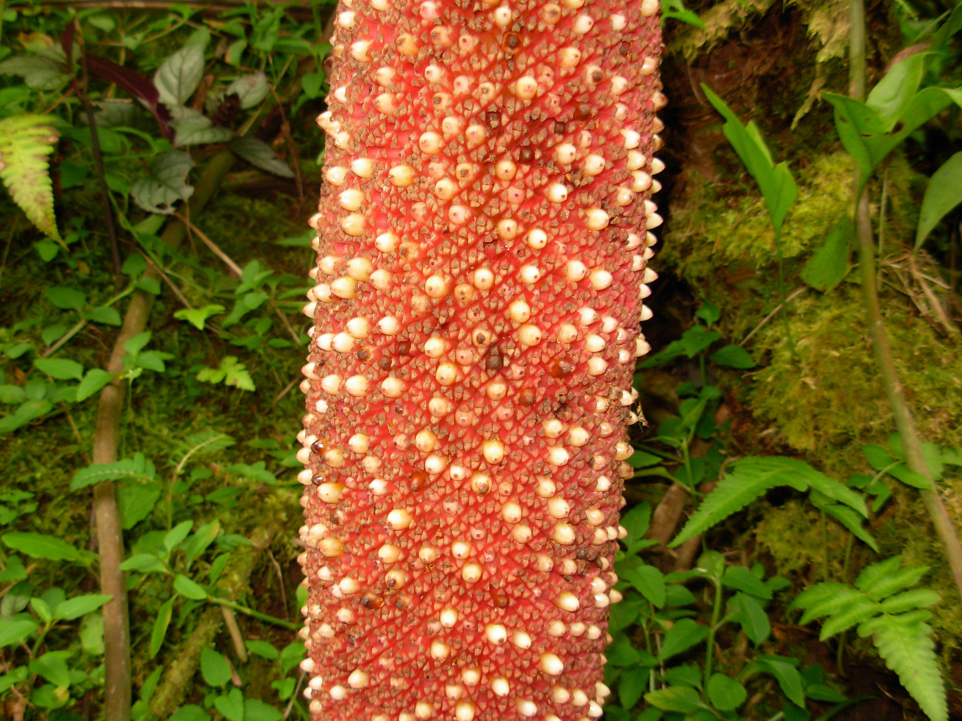 Anthurium cupulispathum Spadix Anthurium Origin: South America Kingdom: Plantae Division: Magnoliophyta Class: Liliopsida Order: Alismatales Family: Araceae Genus: Anthurium 1041308 520